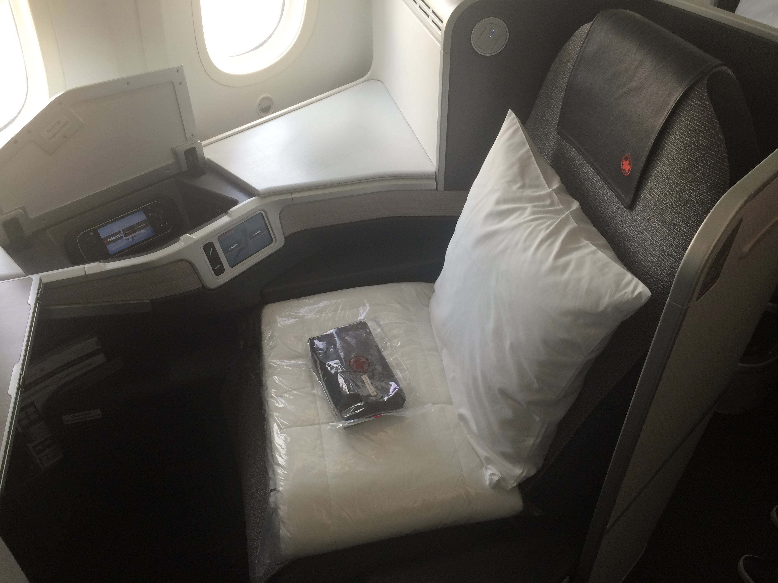 Seat, Amenity Kit, Remote